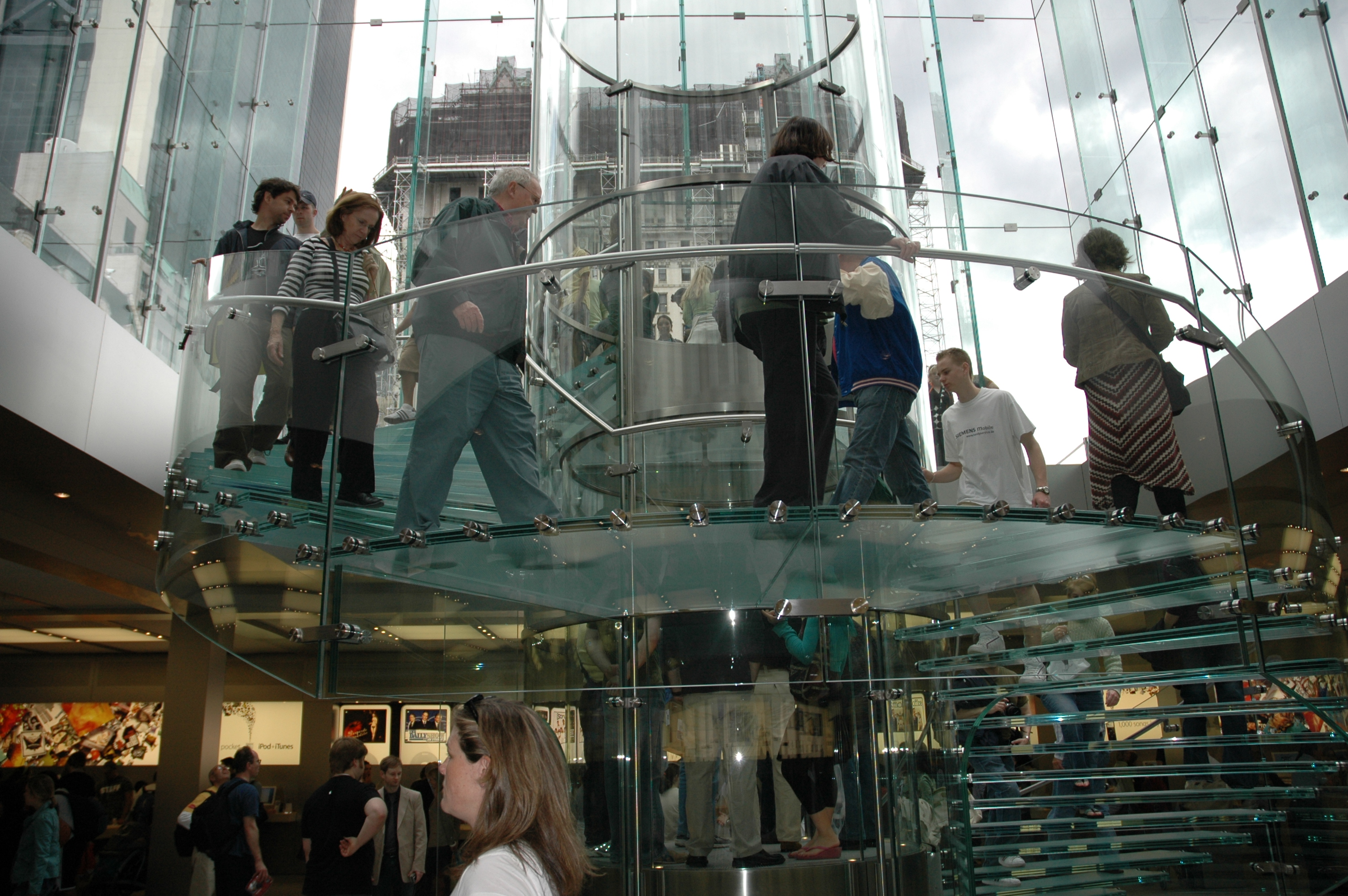 Apple Store, Glass Staircase, Fifth Avenue, New York, NY